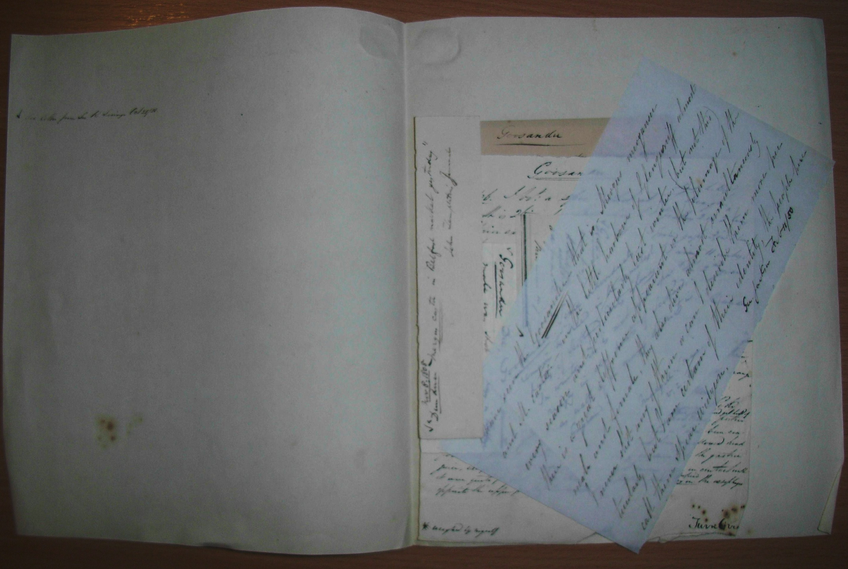 Thompson Archive Goosander